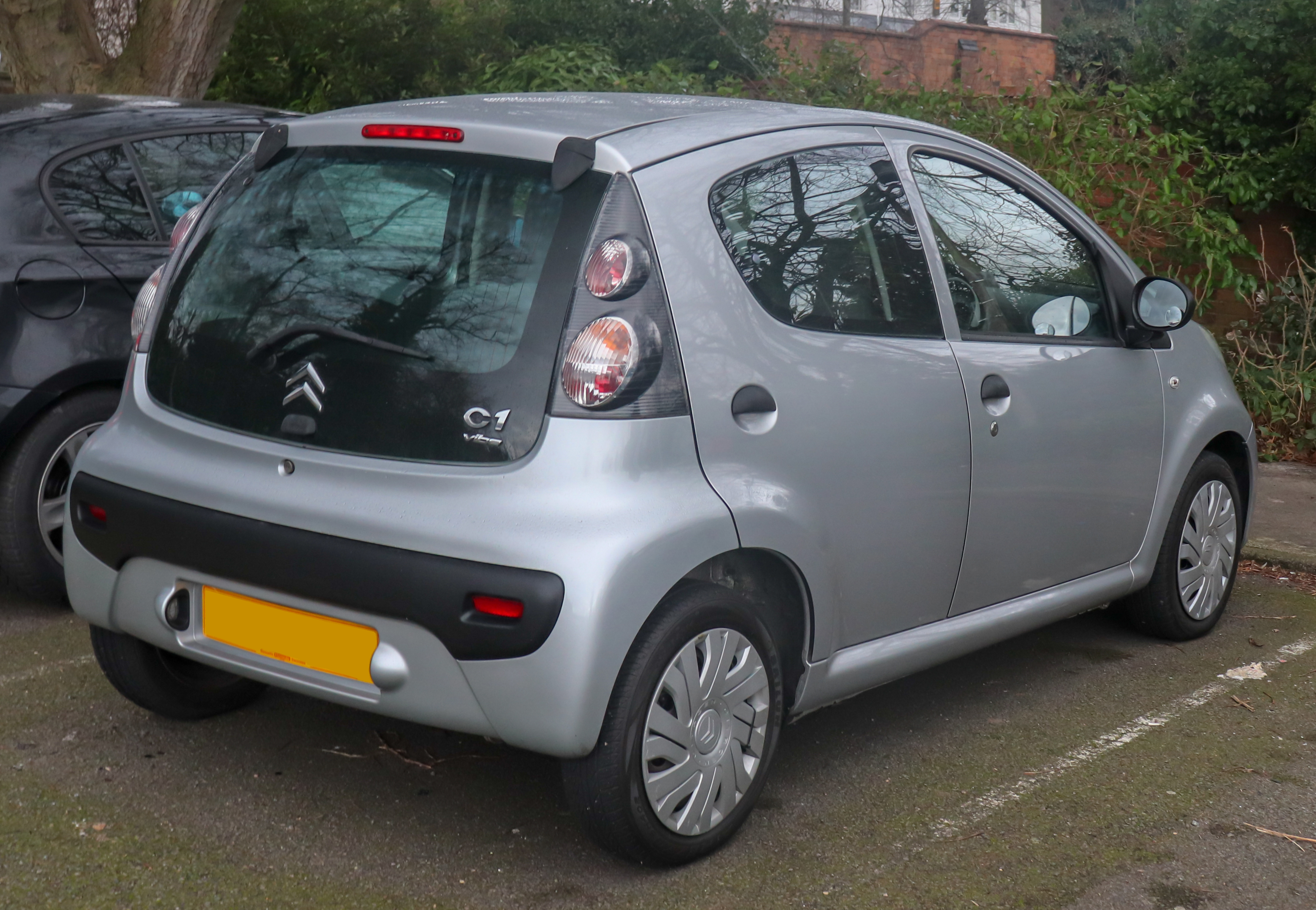 2006 Citroen C1 Vibe 1.0 Rear Taken in Leamington Spa